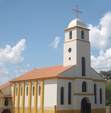 Igrejinha 2014